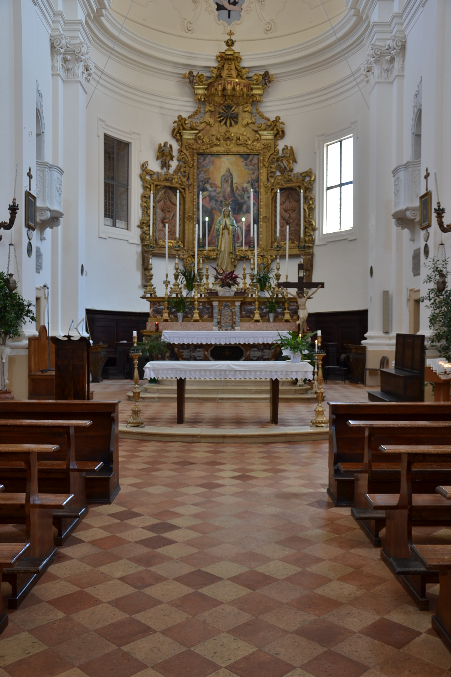 Church Convento di San Francesco, Urbania